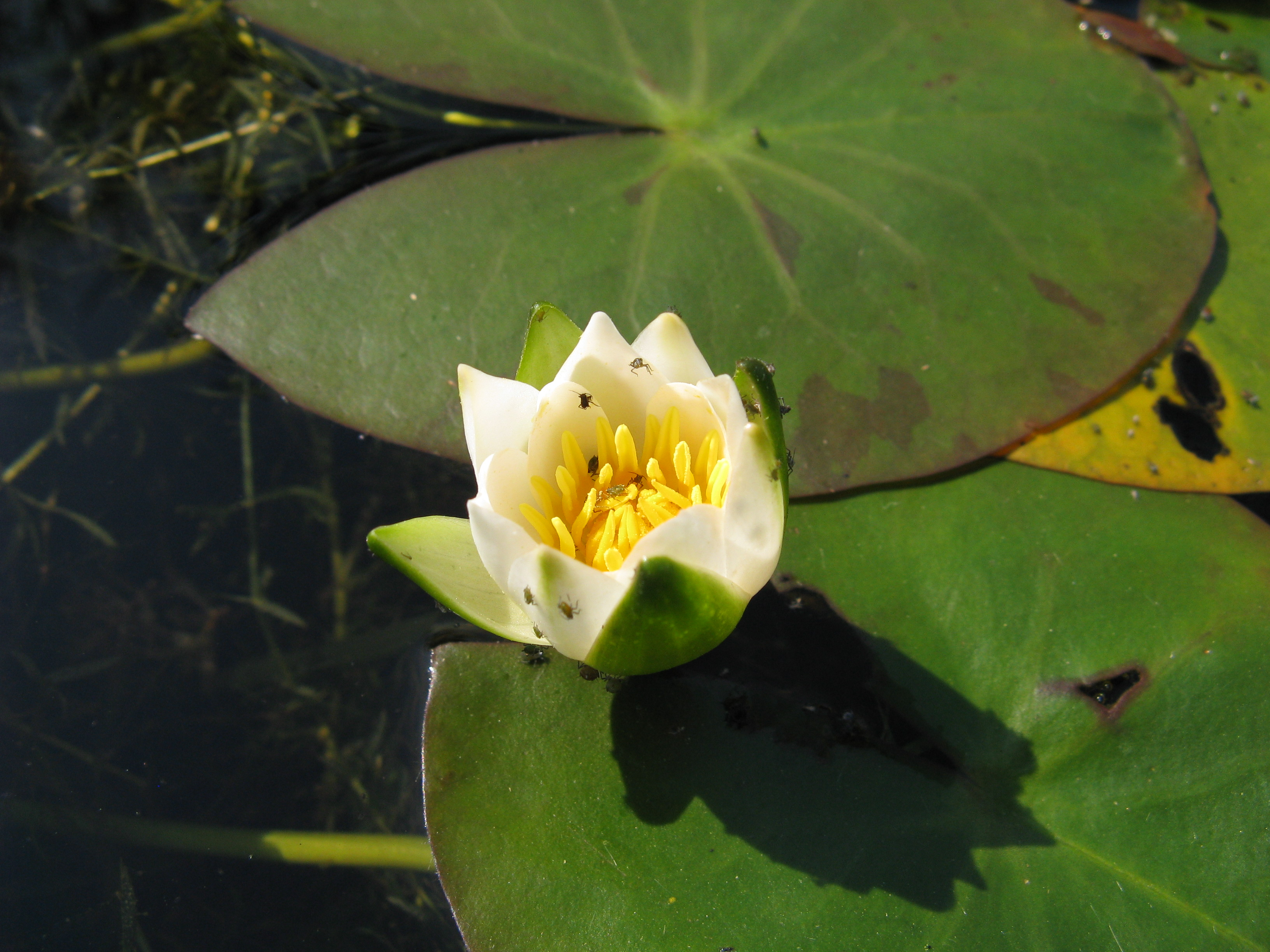 Scientific name Nymphaea tetragona